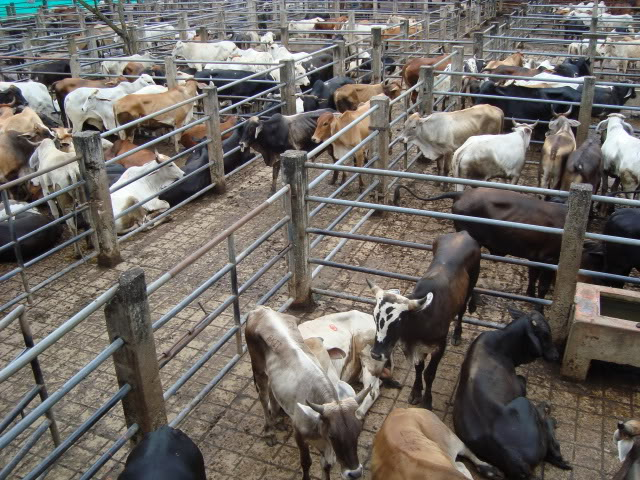 Feria ganadera de Florencia en Cofema